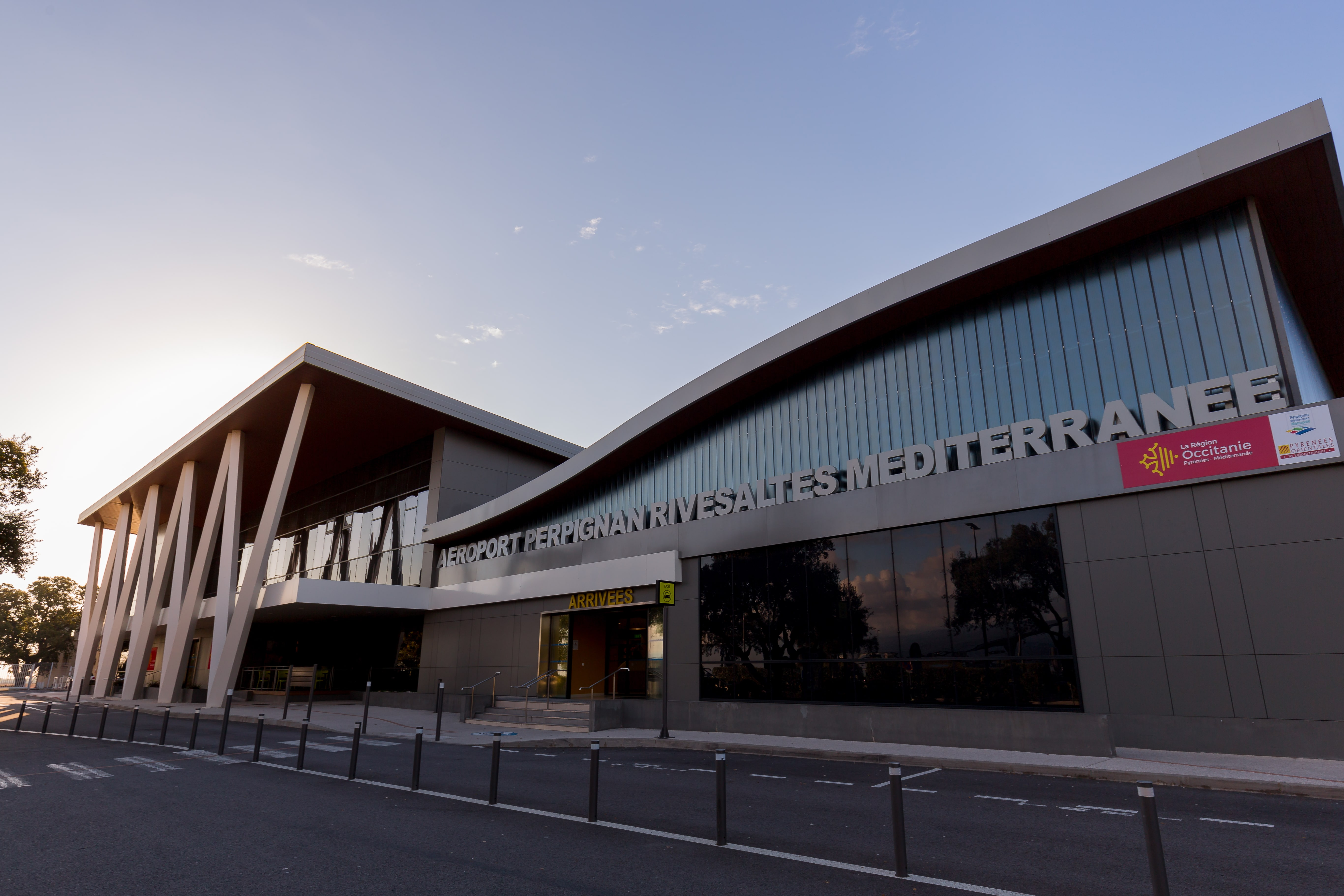 Perpignan Airport